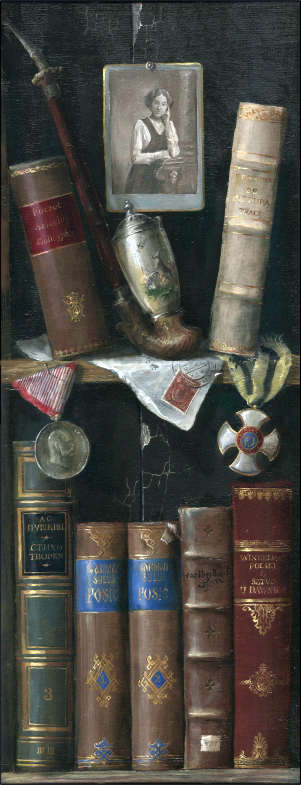 Martwa natura z Ciocią Izą (Stillife with Auntie Iza), oil painting